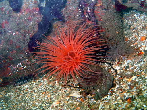 Picture of Tube Anemone (Pachycerianthus fimbriatus) taken by Jeremy Chew with the Canon Powershot S50.